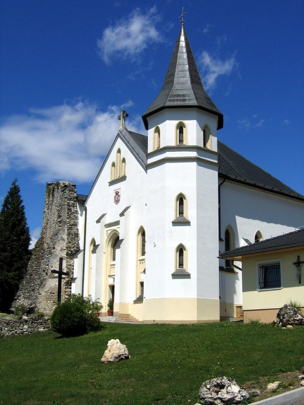 The Catholic Church in Mosovce